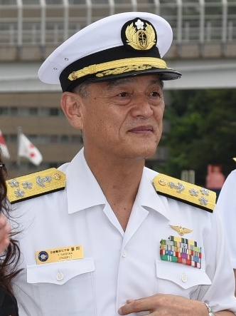 Vice Admiral Yasuhiro Shigeoka, Commander in Chief, JMSDF Self Defense Fleet for the Maritime Self-Defense Force in Yokosuka City, Kanagawa Prefecture on August 23, 2016.